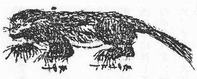 Cholera-jū (Beast of Cholera) from the Fujiokaya-nikkki (Sudō Yosizō's diary)